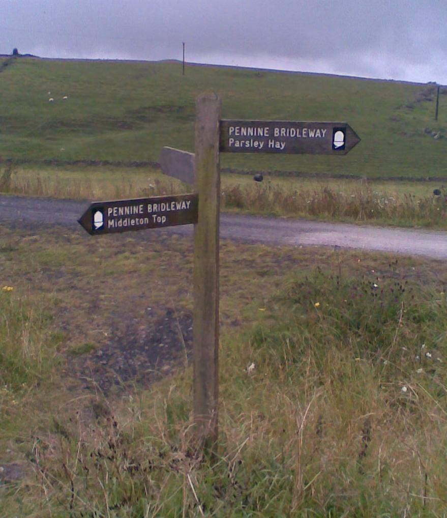 Photo of the Pennine Bridleway signpost near Parsley Hay. Taken by me, and released to the Public Domain.